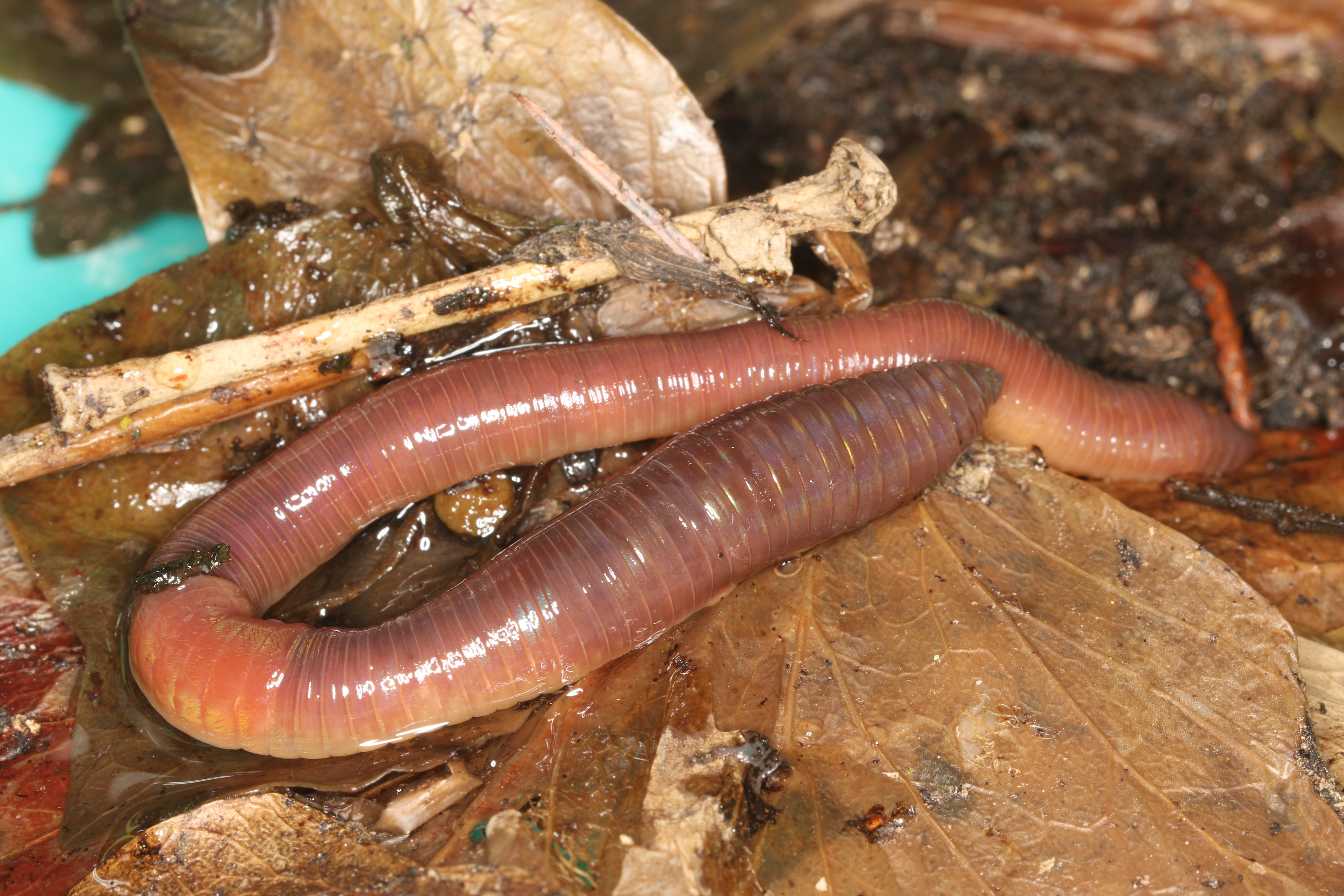 Lumbricus terrestris Linnaeus, 1758, Søborg, Denmark, 24 April 2016